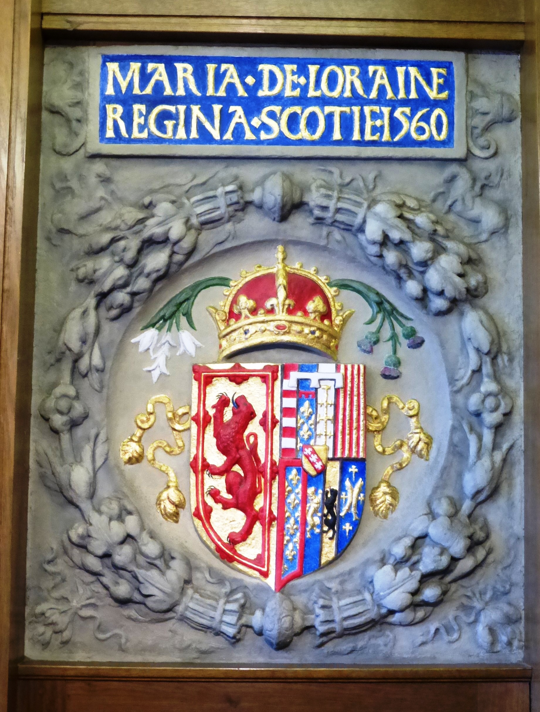 The heraldic arms of Mary of Guise, formerly displayed on her Leith residence in Water Street and later on St. Anthony's Port (1560). They are now in the porch of South Leith Parish Church